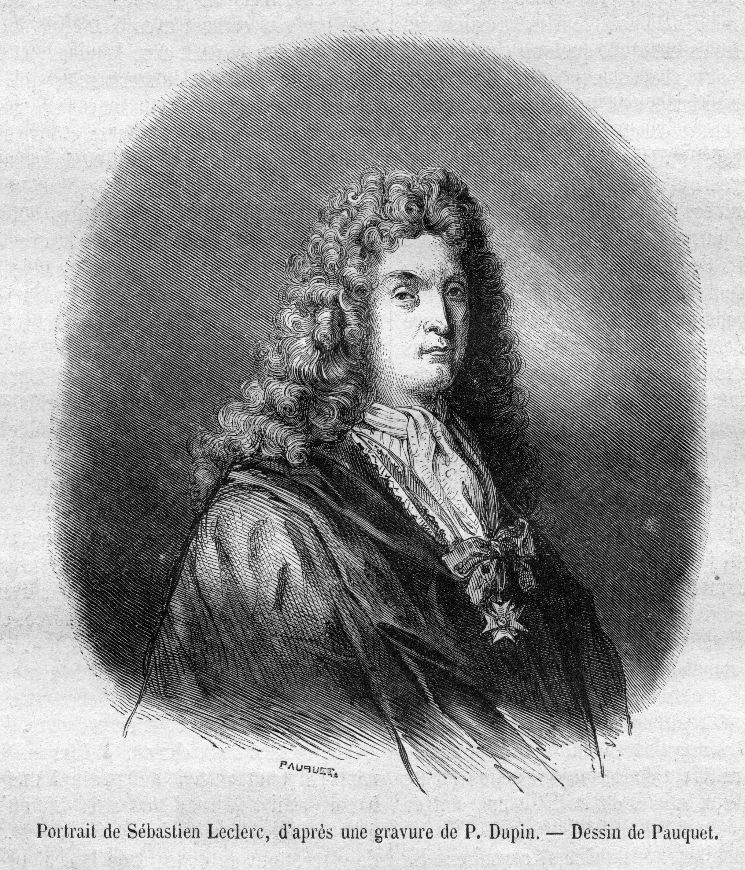 Sébastien Leclerc (1637-1714), printmaker, draughtsman and military engineer.